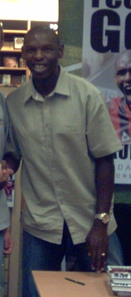 Footballer Shaun Goater at a book signing on 26 September 2006